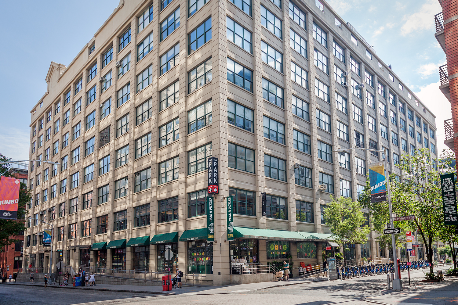 Businesses in this building: 55 Washington Street: Vice, Amplify, Ricoh, Peas and Pickles, Two Bulls LLC, Big Spaceship, Philip O'Hara Associates Inc., Northside Media Group, Umbrella Inc., Sesame Letterpress, Empire One, Red Horse Strategies, LiliBrand, Rubberband International LLC, JAKK Media, Fabric and Steel, Park Kwik. 41 Washington Street: Upwell 43 Washington Street: Salon Dumbo 45 Washington Street: Brooklyn Roasting Company 109 Front Street: Bridgestone Cleaners 111 Front Street: Melt Bakery 115 Front Street: Dumbo Hardware 117 Front Street:Equinox Dumbo, Juice Press 56 Adams Street: Foragers Market 28 Adams St: Powerhouse Arena Bookstore 130 Water Street: Gleason’s Gym (Photo gallery of DUMBO, Brooklyn)